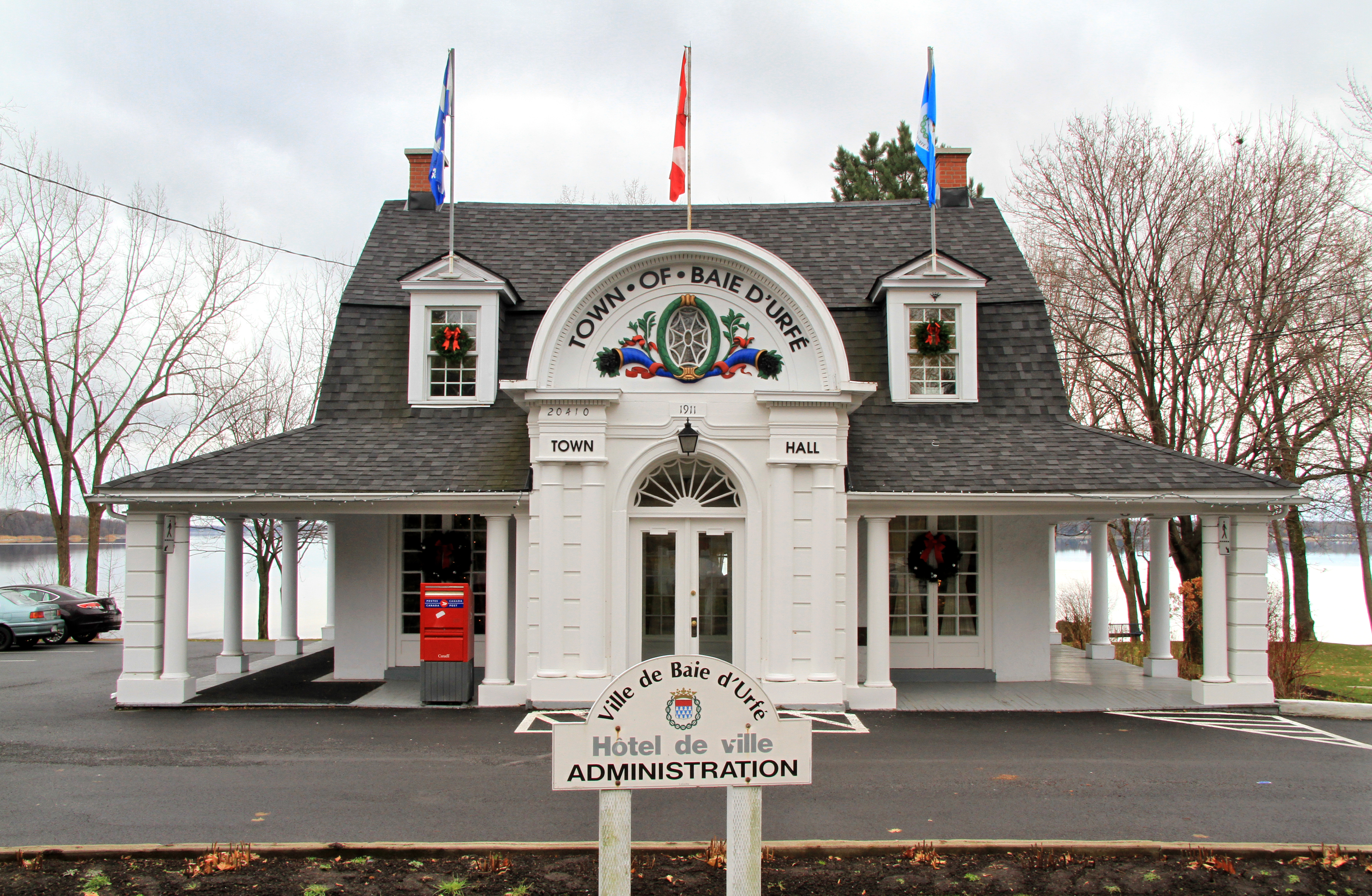 The City Hall of Baie-D'Urfé, Quebec, Canada.